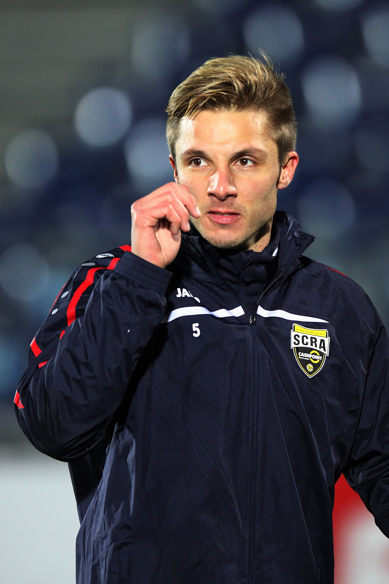 2014–15 Austrian Football Bundesliga: SC Wiener Neustadt vs. SC Rheindorf Altach (2:0 / 0:0) at 2014-12-06 in the Stadion Wiener Neustadt. – The photo shows en: (SC Wiener Neustadt/SC Rheindorf Altach). The making of this work was supported by Wikimedia Austria. For other files made with the support of Wikimedia Austria, please see the category Supported by Wikimedia Österreich.